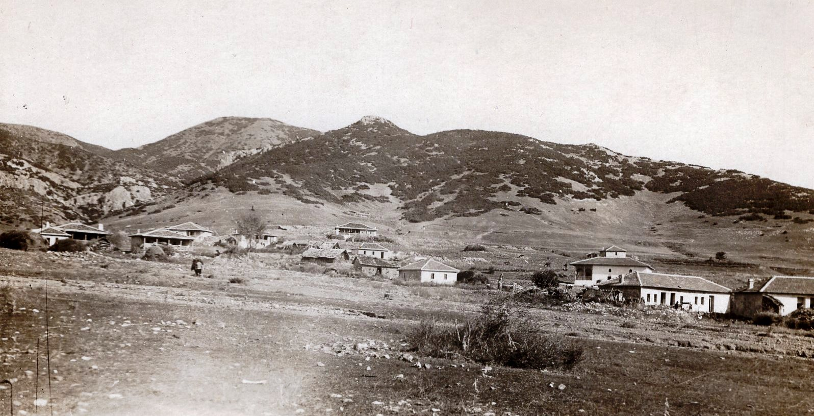 Rabrovo, village in Valandovo Municipality. Photo from 1931 This media file is produced by Wikipedian in Residence in Category:Wikipedian in Residence at DARM in 2016.